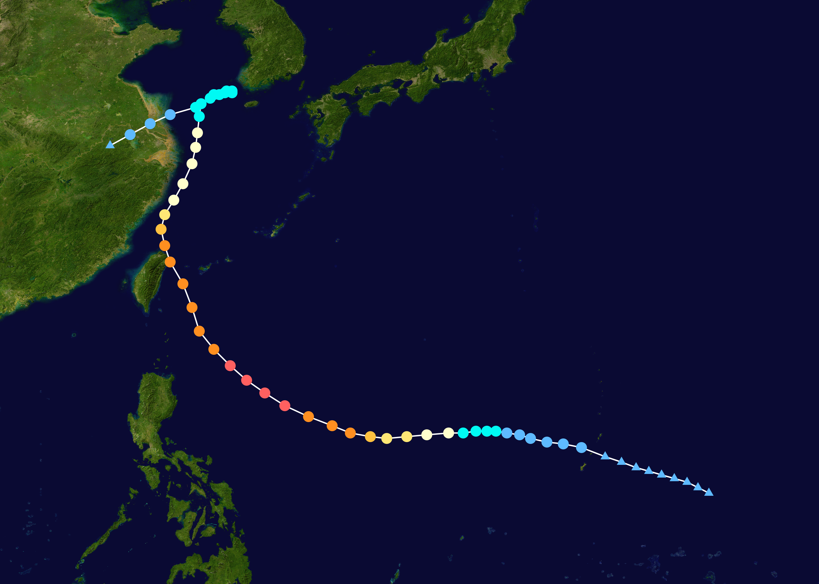 Typhoon Doug 1994 track. Uses the color scheme from the Saffir-Simpson Hurricane Scale.